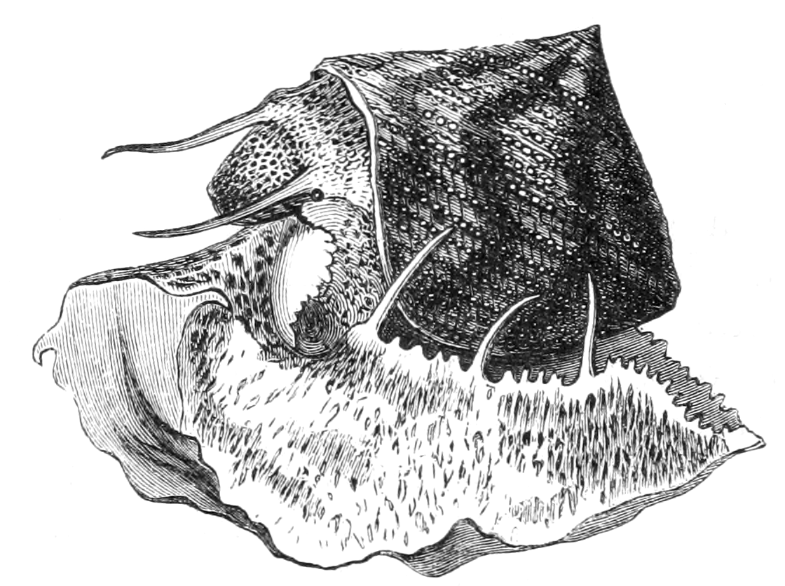 Illustration from Natural History: Mollusca (1854), p. 208 - "GRANULATED TROCHUS" (T. granulatus). Modern accepted name (2012) is Calliostoma granulatum.